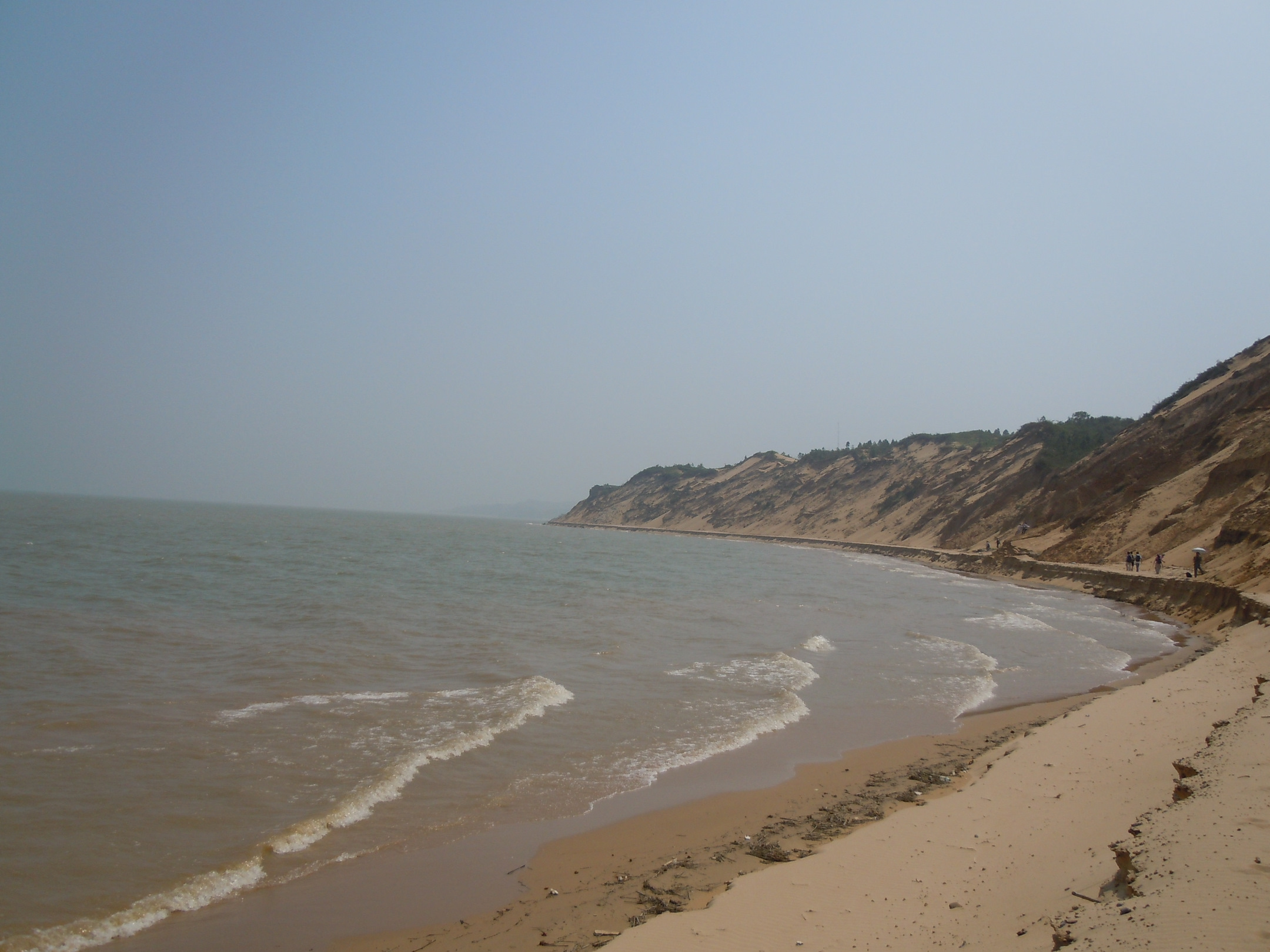 Sand Ribbons in Xingzi County,Poyang Lake